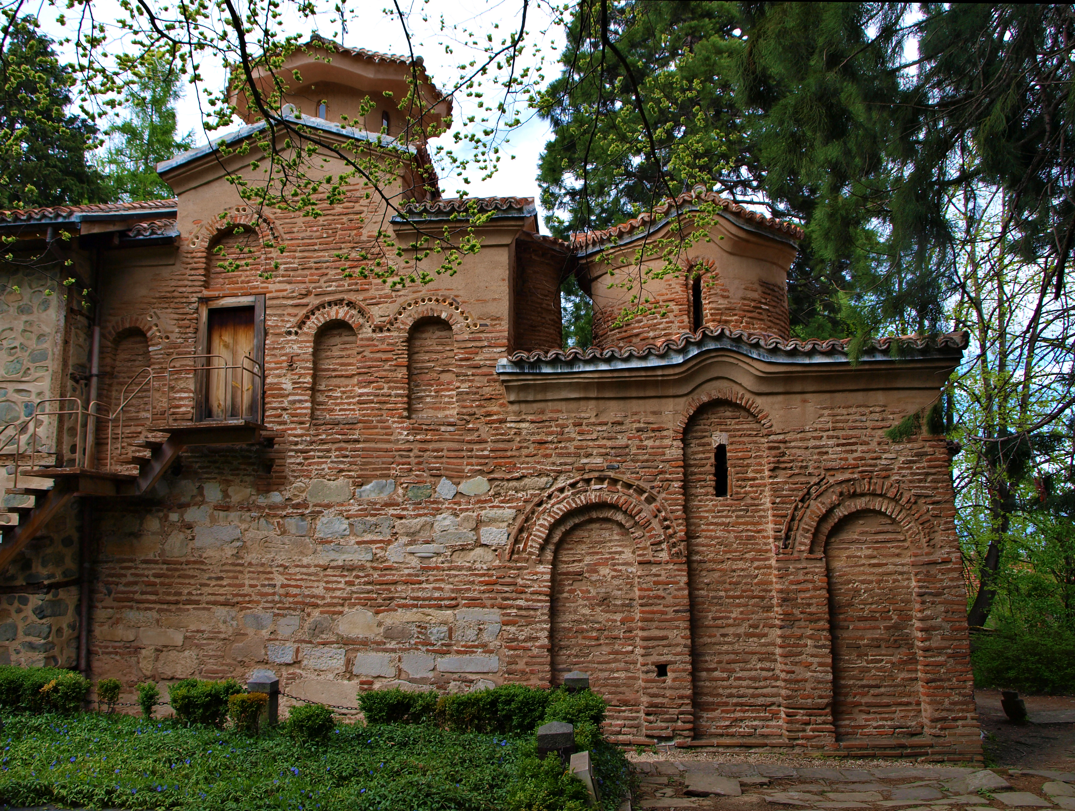 Boyana Church